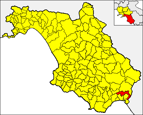 Locator map of the municipality of Tortorella (red) within the Province of Salerno